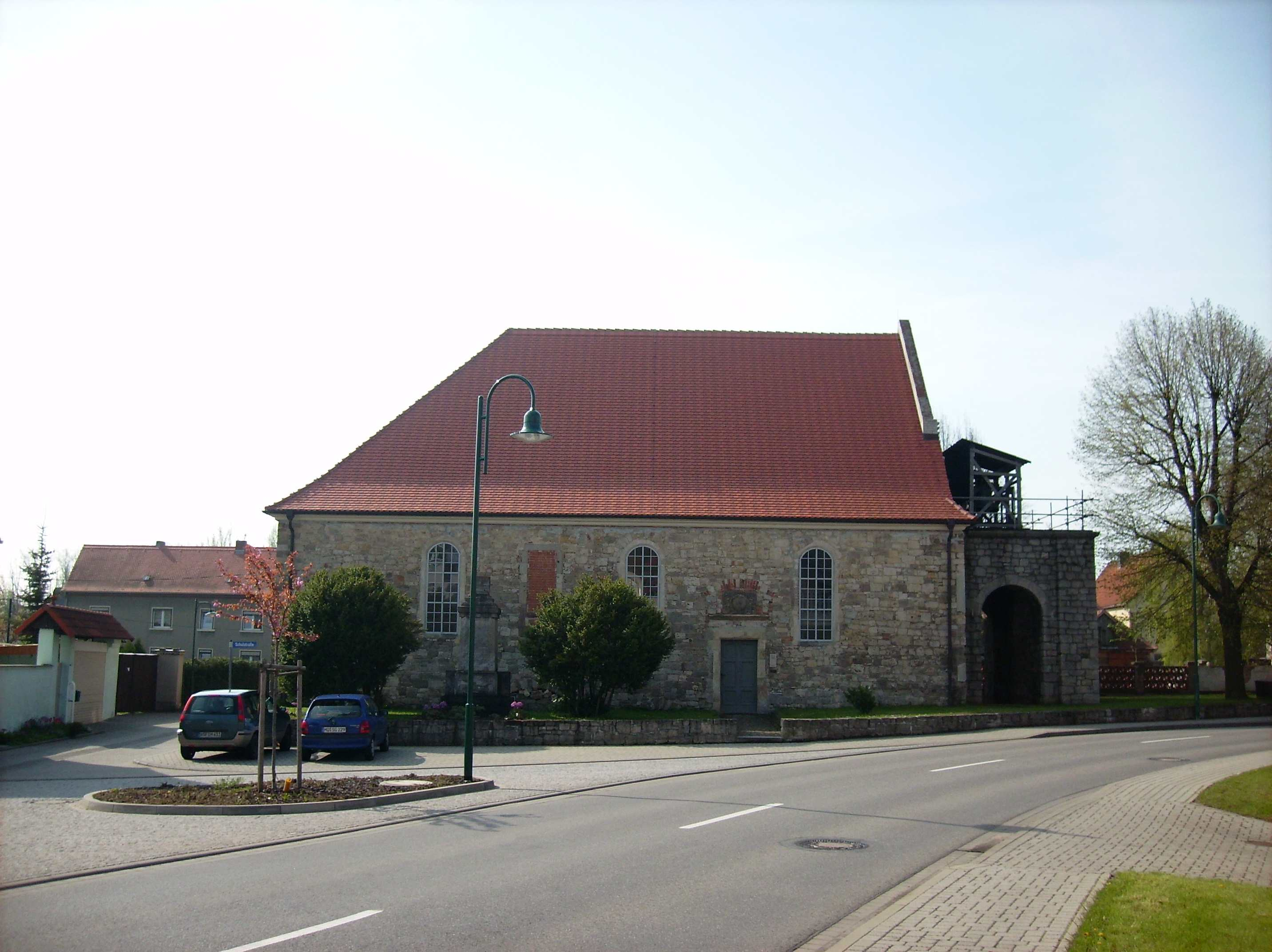 Church of the village of Markröhlitz (Goseck, district of Burgenlandkreis, Saxony-Anhalt)